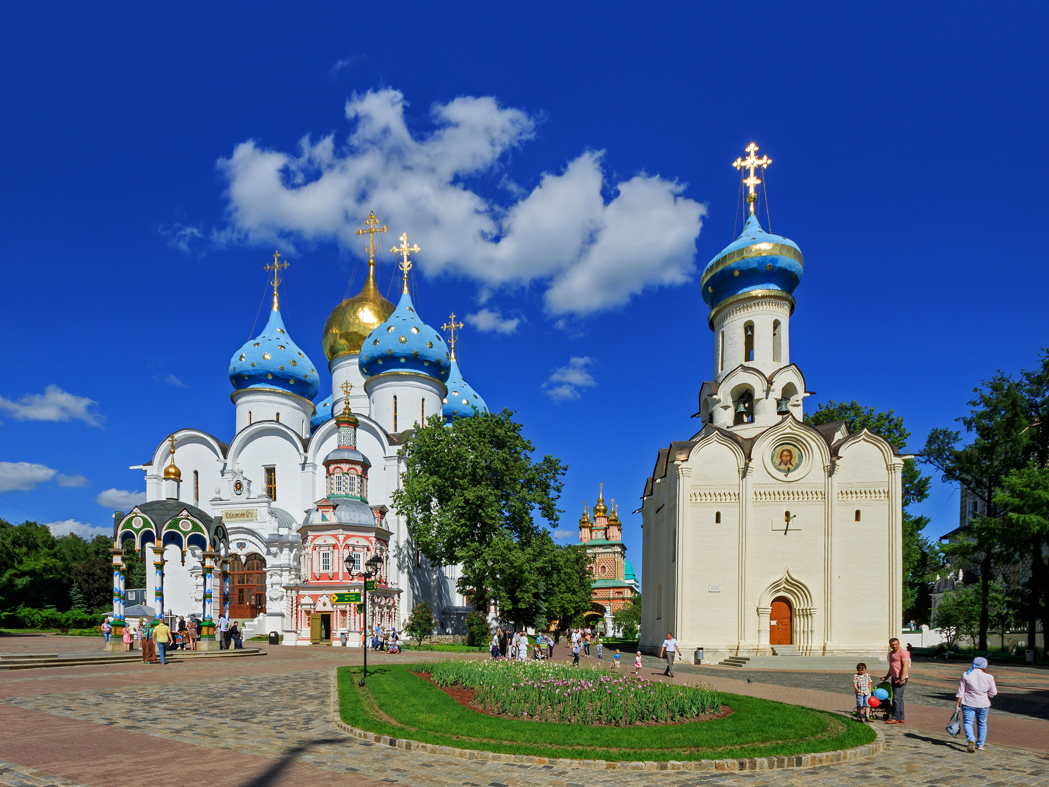 Trinity Lavra of St. Sergius in Sergiev Posad, Moscow Oblast, Russia: Assumption Cathedral, and Church of the Descent of the Holy Spirit